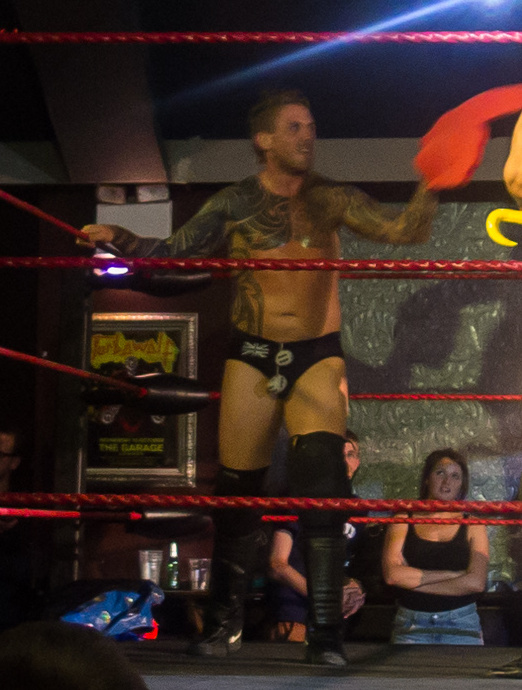 Greg Burridge at Progress Wrestling Chapter 3 in September 2012. Cropped from original.